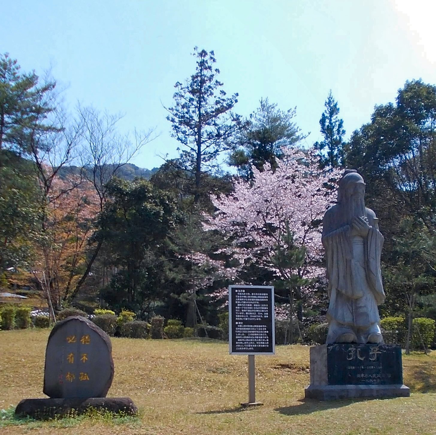 Confucius Statue at Taku Seibyō (Confucian Temple).